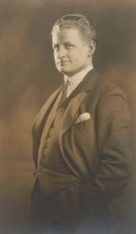 The deceased garden designer Ralph Hancock